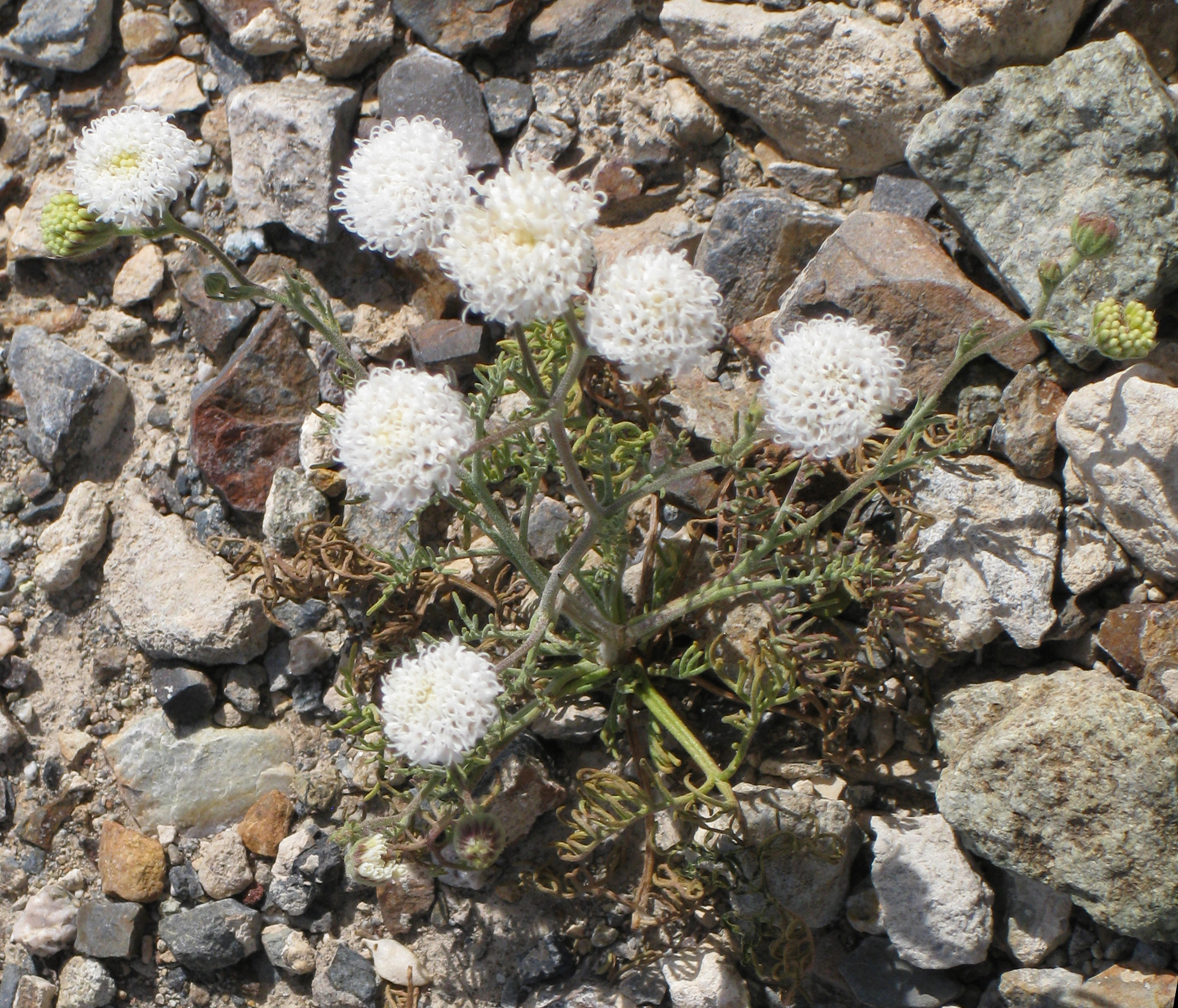 Pebble pincushion (Chaenactis carphoclinia) small plant, flowering in the 2016 Death Valley superbloom. Altitude 4,340 ft (1,320 m), along Rt 190.